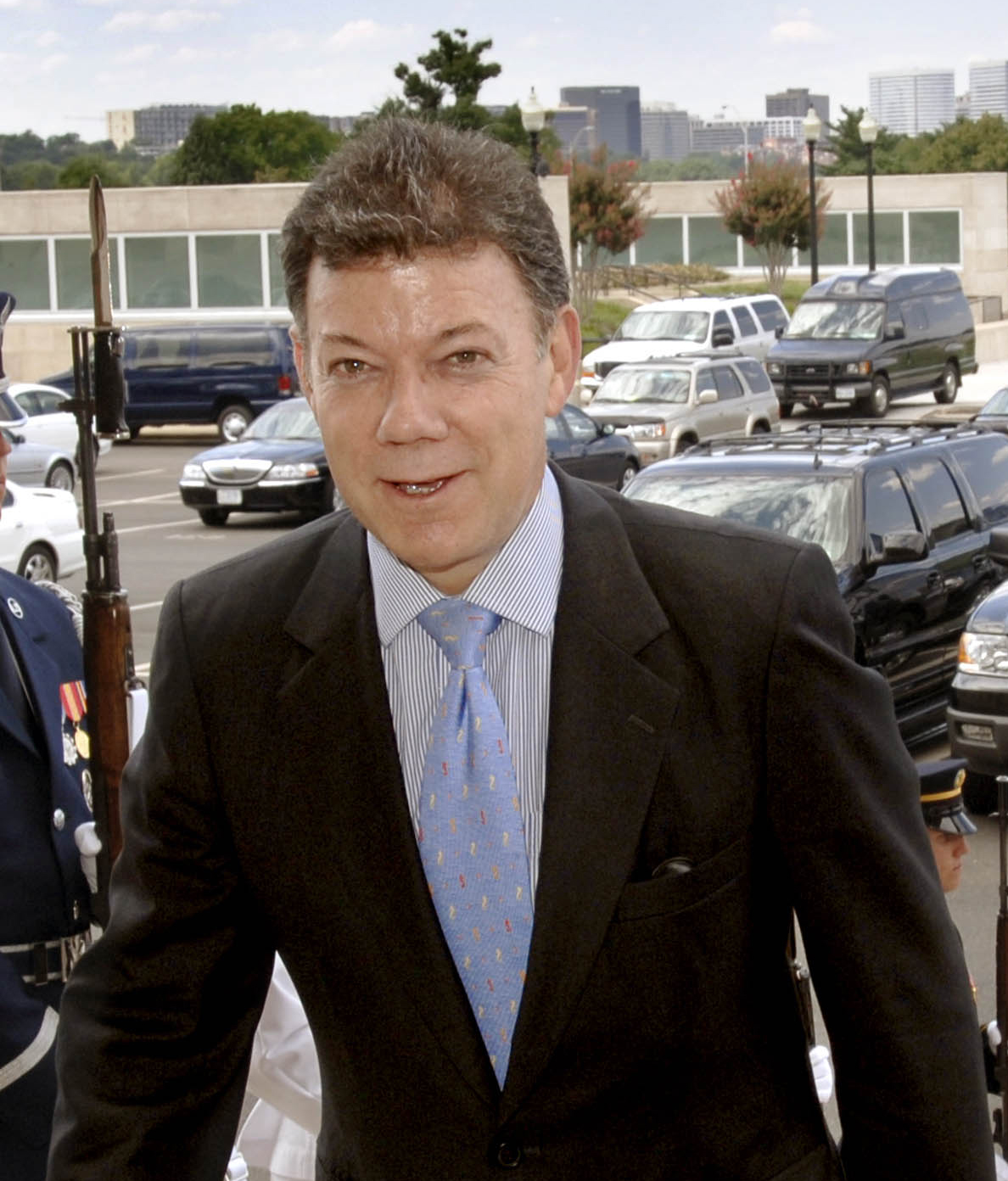 The President Santos entering to the pentagon, when he was minister of defense of Colombia